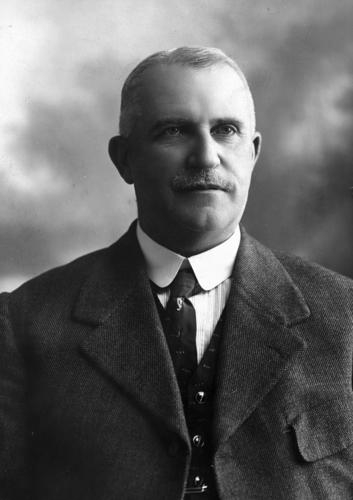 Portrait of John George Appel